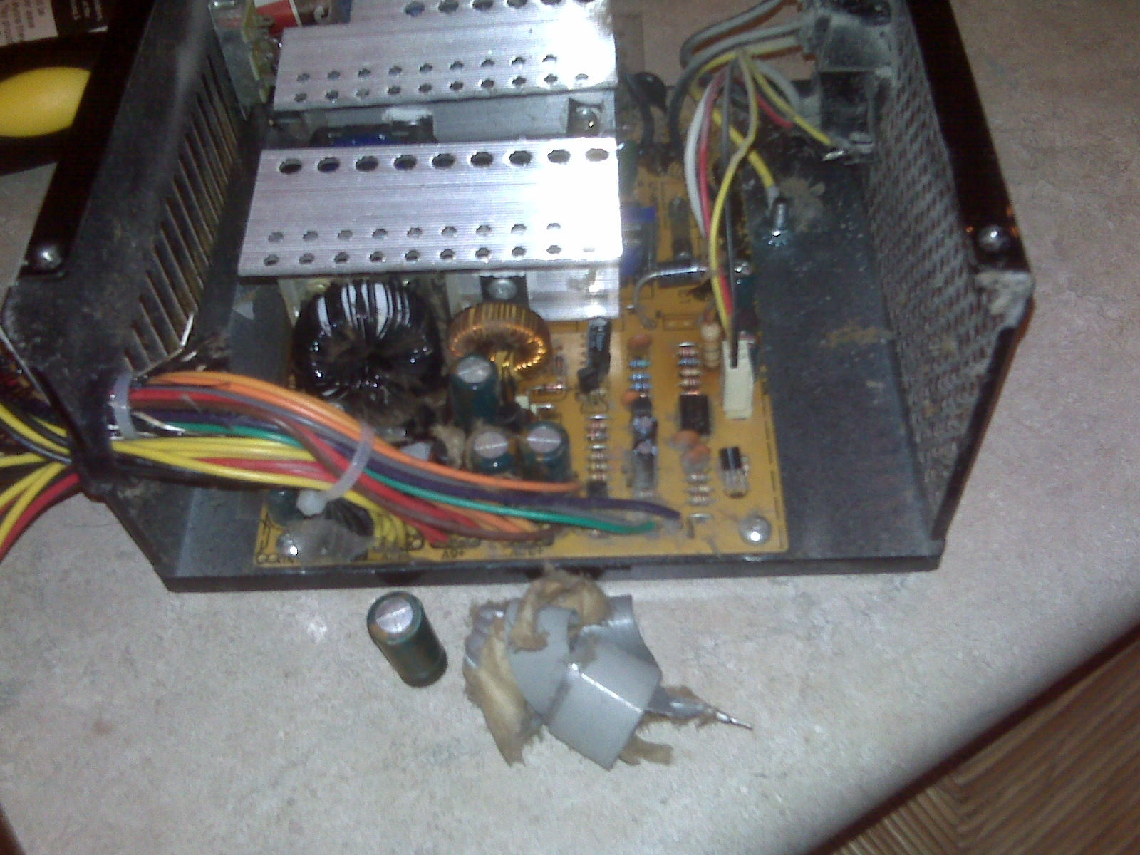 Capacitor has blown out off its case in this PC Power Supply